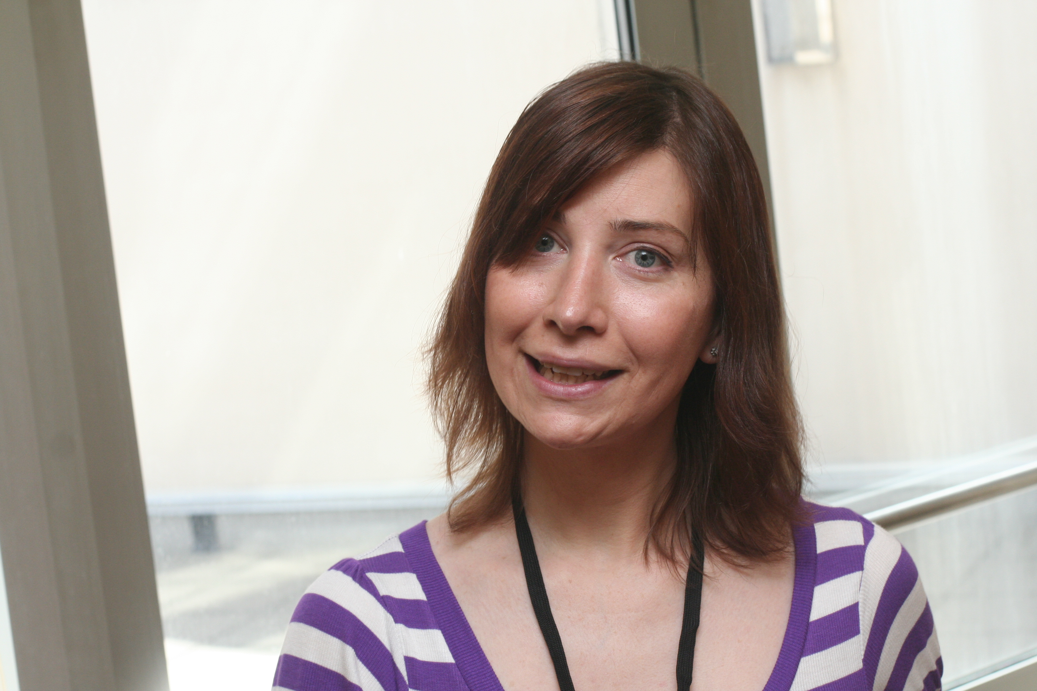 Jeri Ellsworth